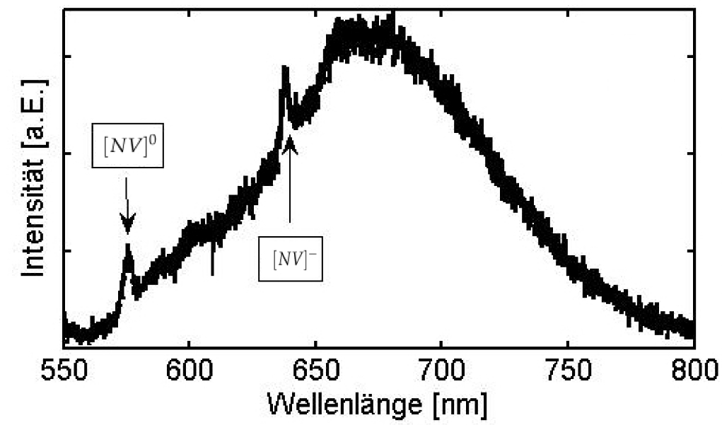 Fluorescence-spectra of single NV-centers in nanodiamonds.